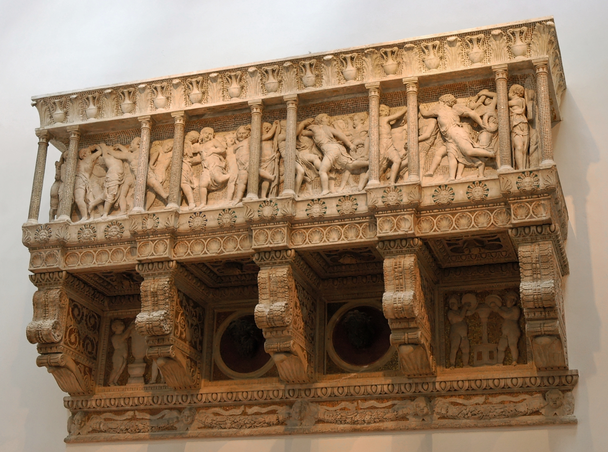 Organ balcony, best known as "cantoria" (singer's gallery) from the Duomo in Florence, Italy. Dismantled and partly destroyed in 1688; the upper frieze was remade by Gaetano Baccani in 1841. Marble, Museo dell'Opera del Duomo.